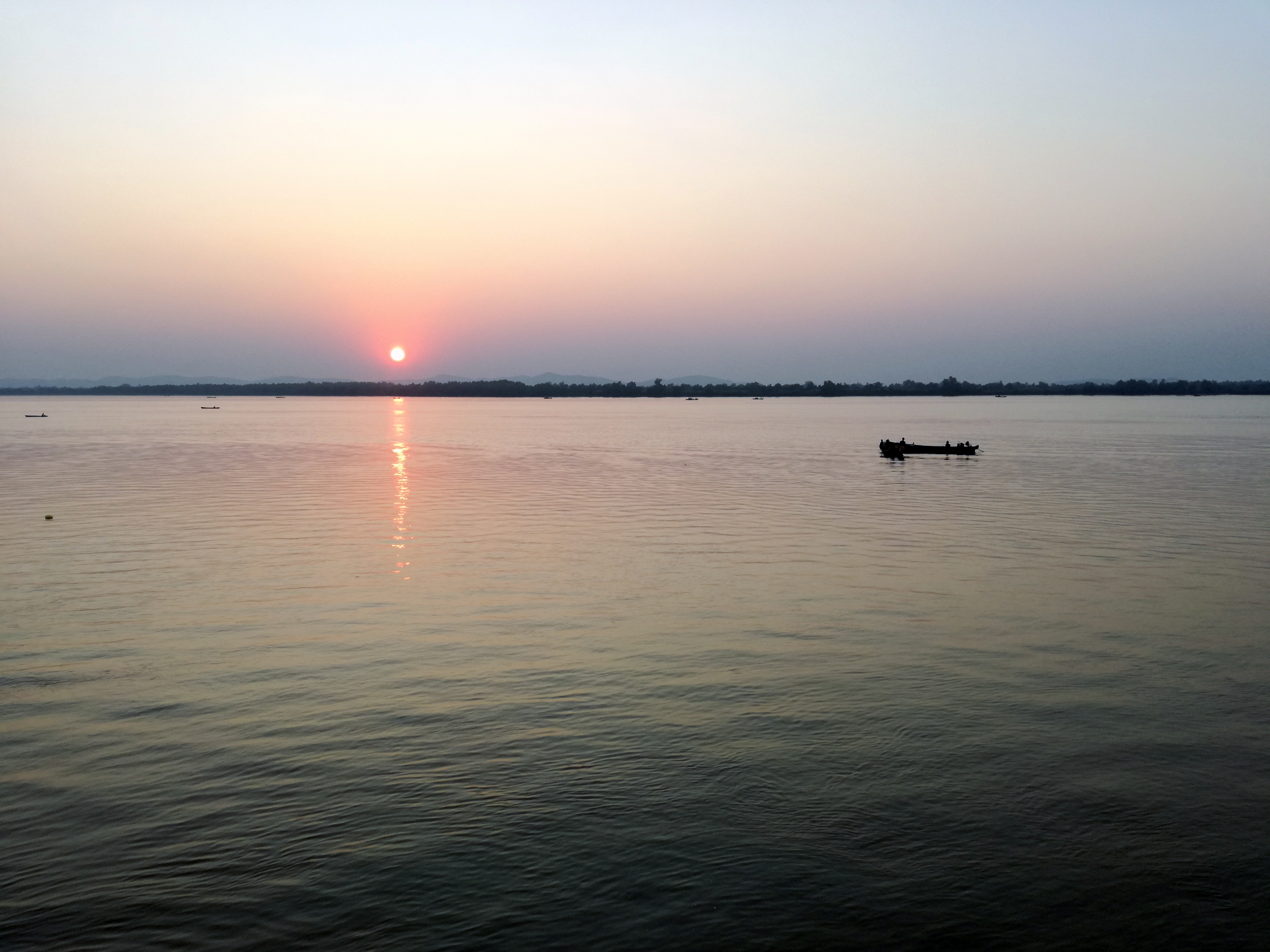 View of Bilu Island from Mawlamyaing